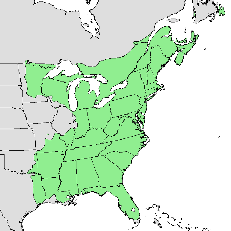 Range map of Red Maple (Acer rubrum).